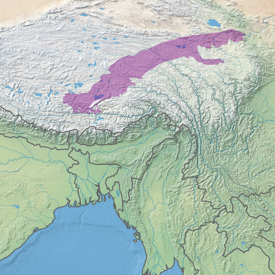 WWF Ecoregion PA1020 - Tibetan Plateau alpine shrublands and meadows